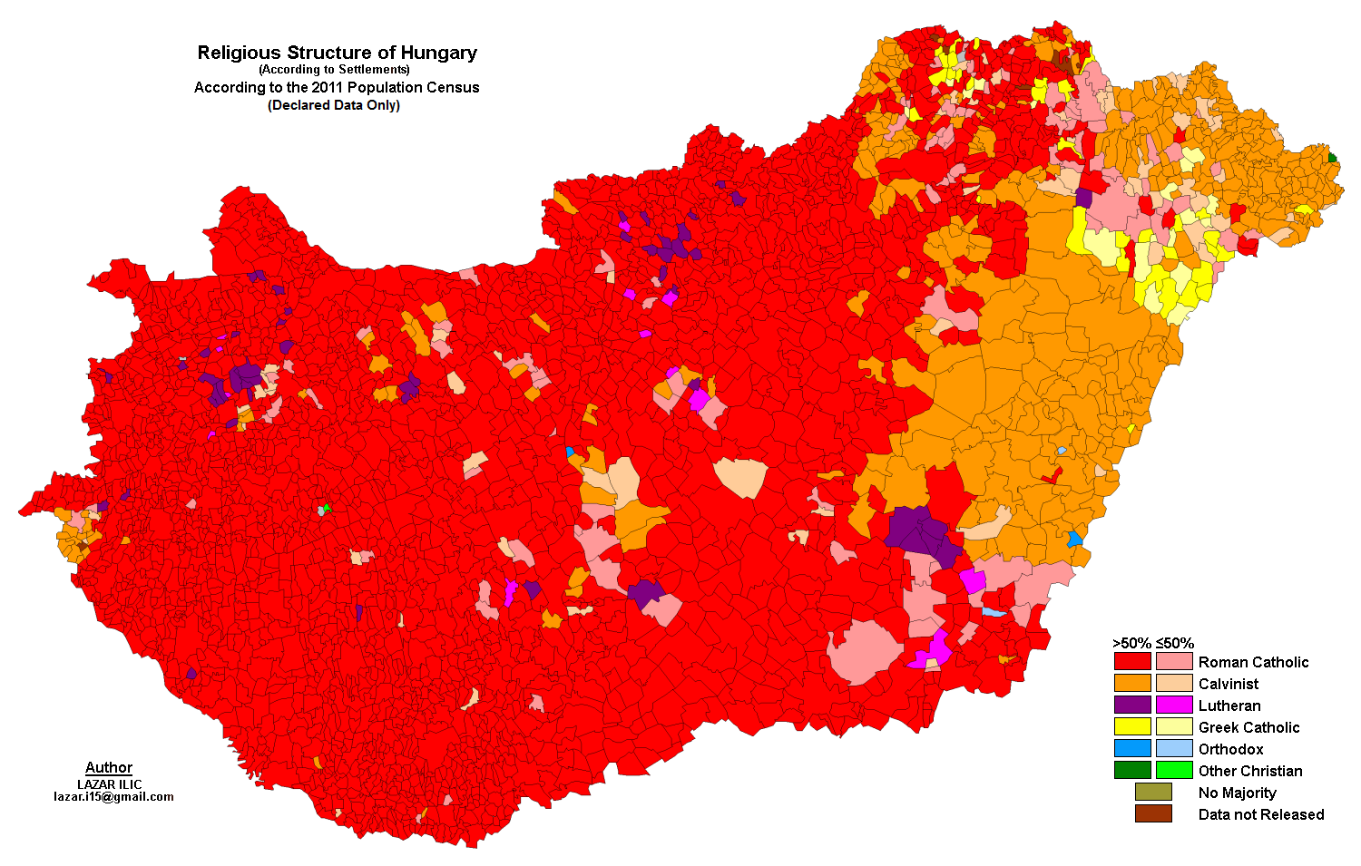 This is a religious map of Hungary according to the 2011 population census. The map is made by using only declared data. Hence, data for people who did not declare their religion is not accounted for.